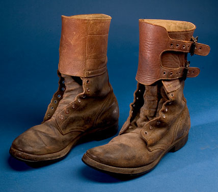 Combat boots, Korea cat. no. 1978.0260.086